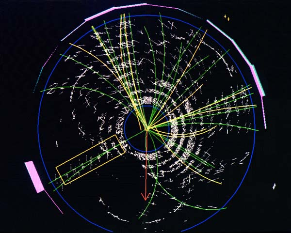 A detector view of a proton antiproton collision giving rise to a top antitop pair, and their subsequent decay